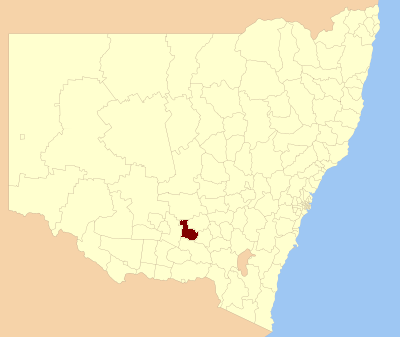 Location of Coolamon LGA in New South Wales